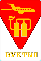 Coat of Arms of Vuktyl Герб Вуктыла